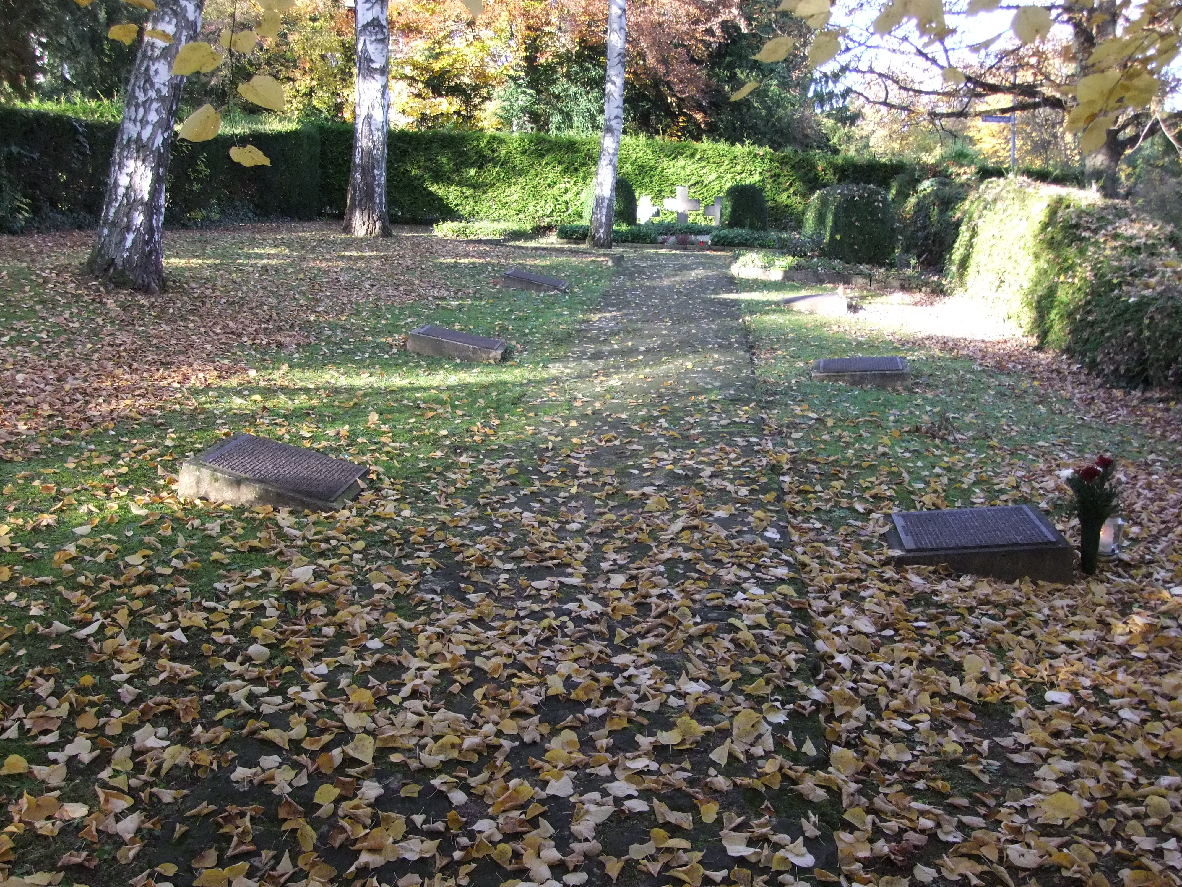 General view of Gräberfeld X on Stadtfriedhof Tübingen.